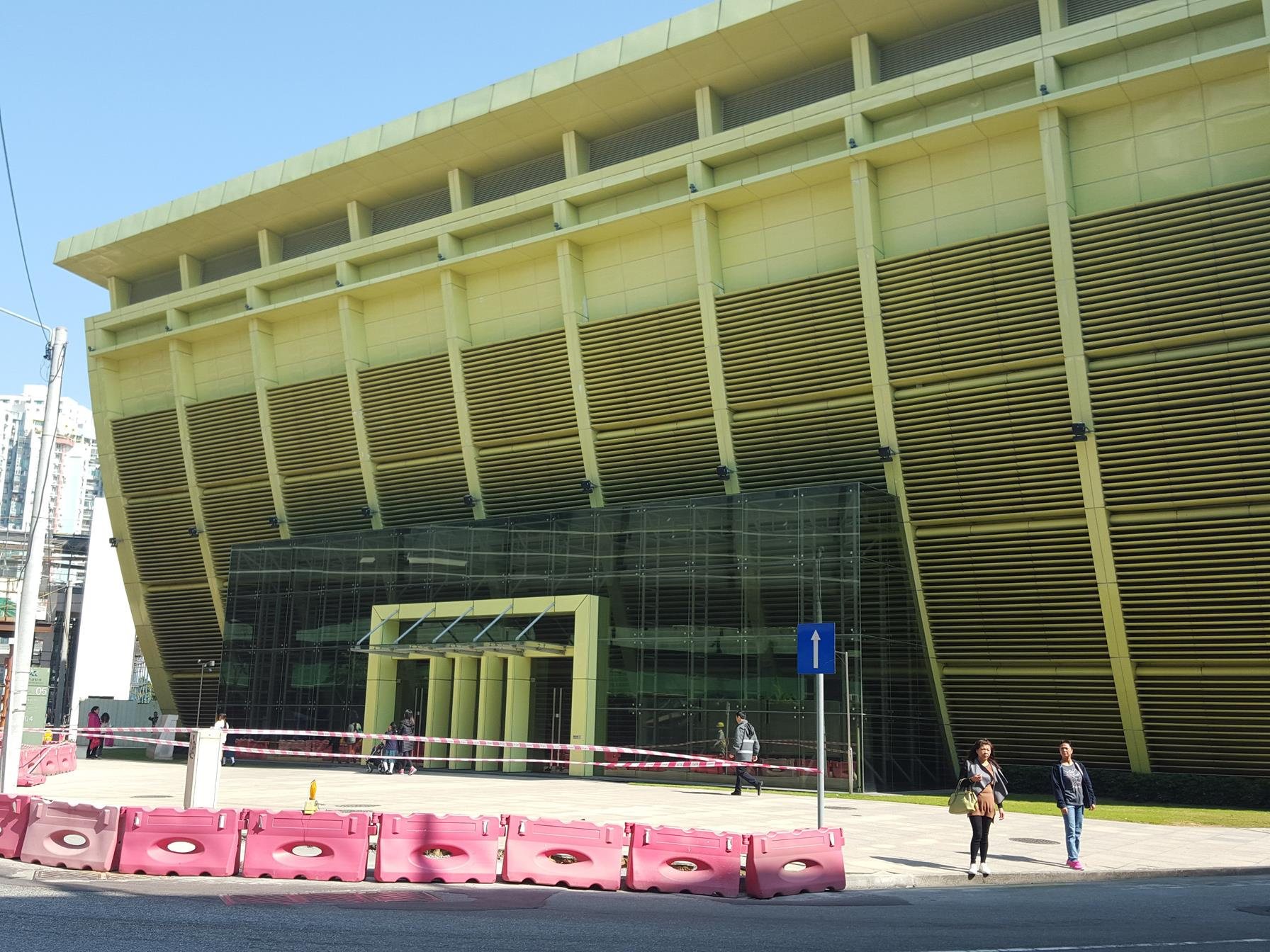 a Stadium at the Macau Stadium